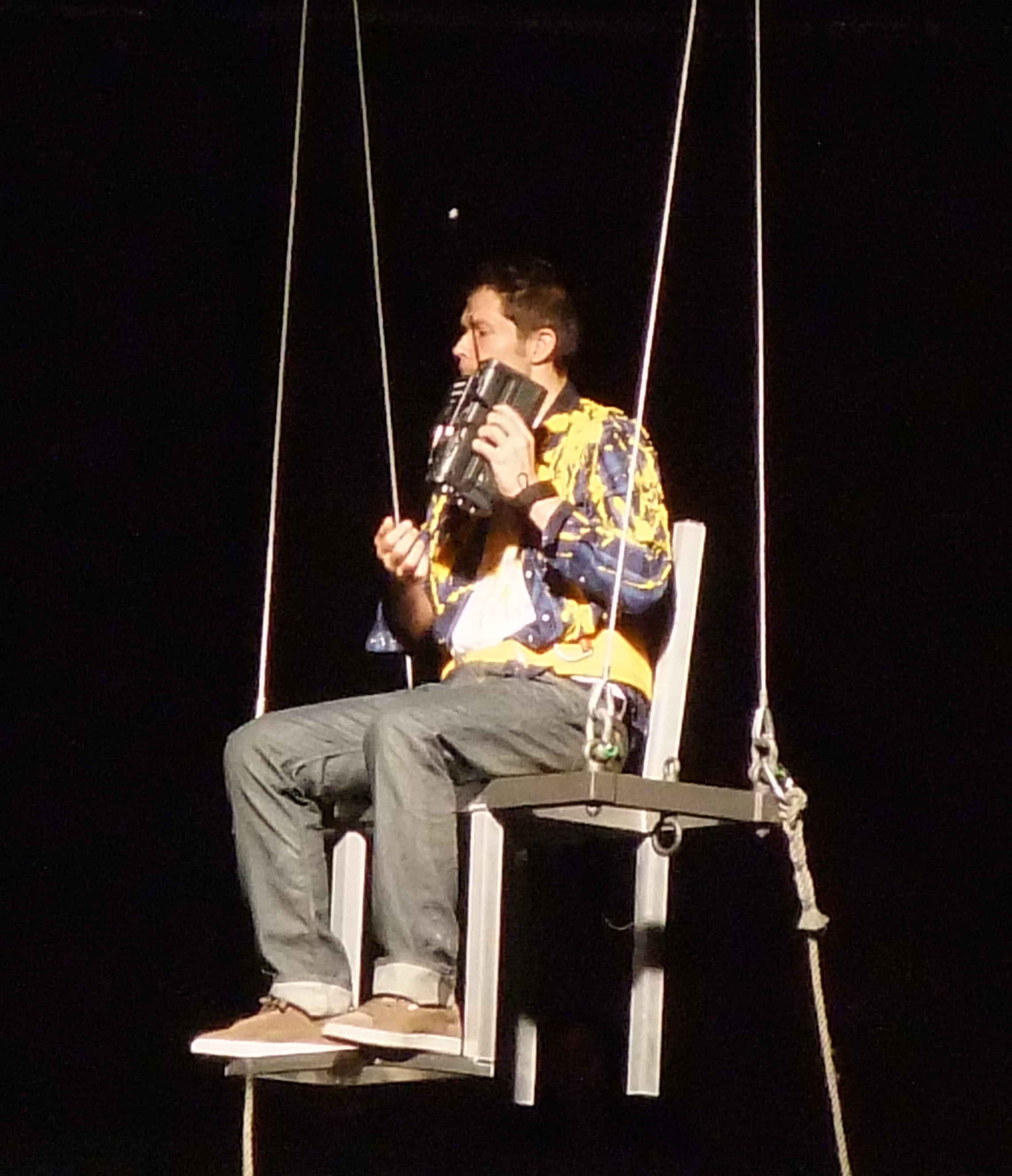 The Operator (Michael Leibundgut, bass) interprets shortwave signals in Michaelion from Karlheinz Stockhausen's Mittwoch aus Licht, Birmingham Opera, 23 August 2012.